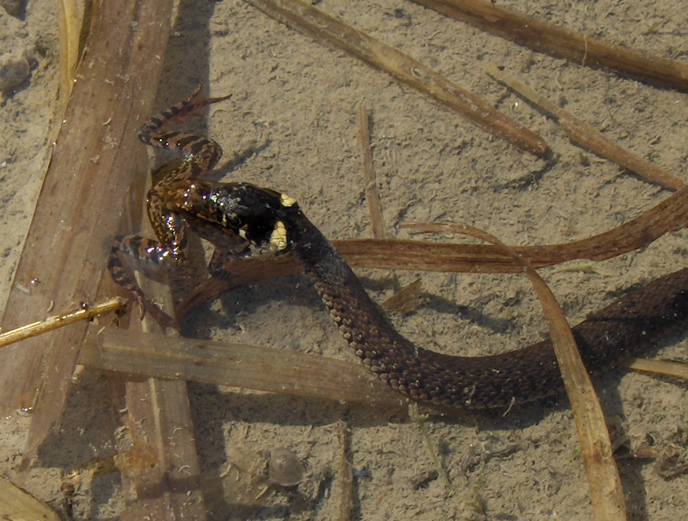 Grass snake eating common frog